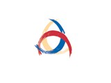 Smaller emblem of city of Bordeaux, France